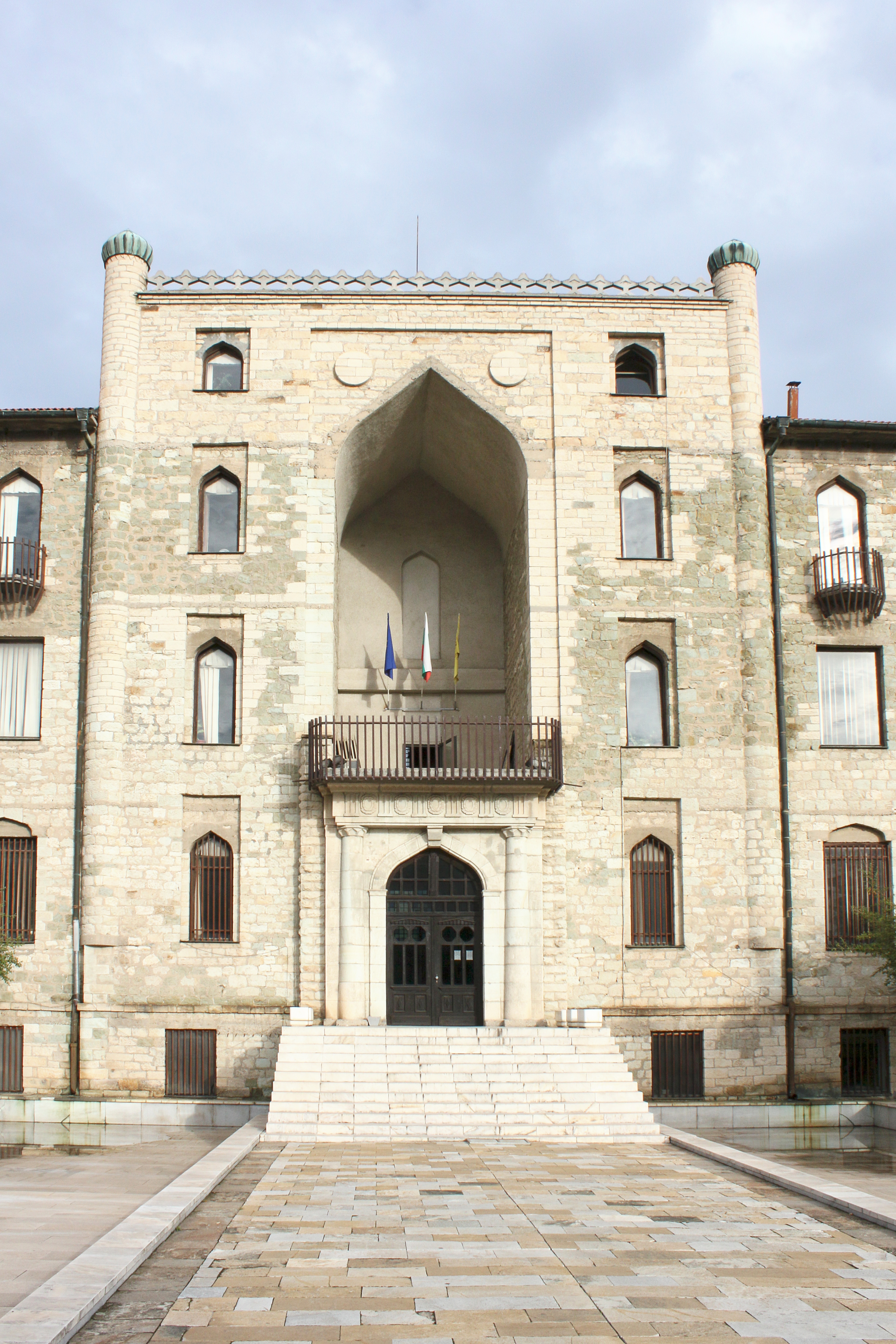 Regional Muzeum of History Kardschali; Bulgaria